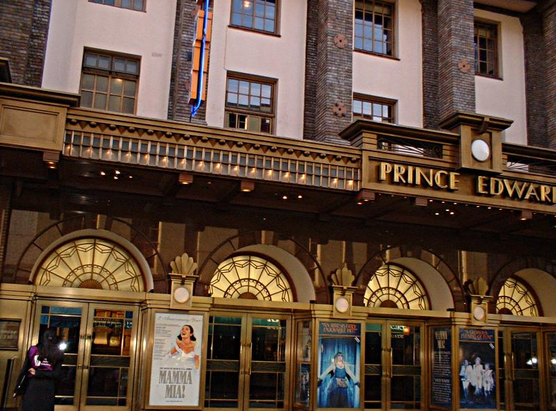 the London's theatre Prince Edward Theatre Prince Edward Theatre taken by C Ford, March 04.